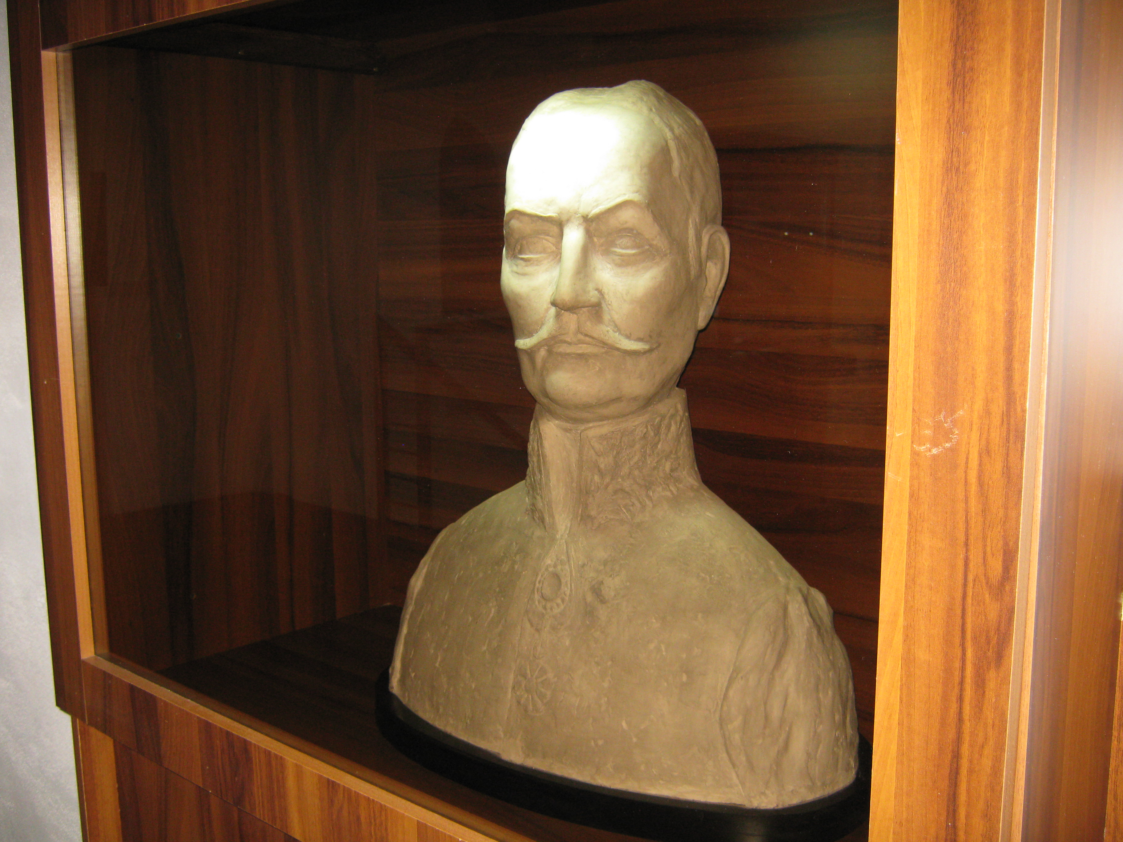 Jevrem Nenadović